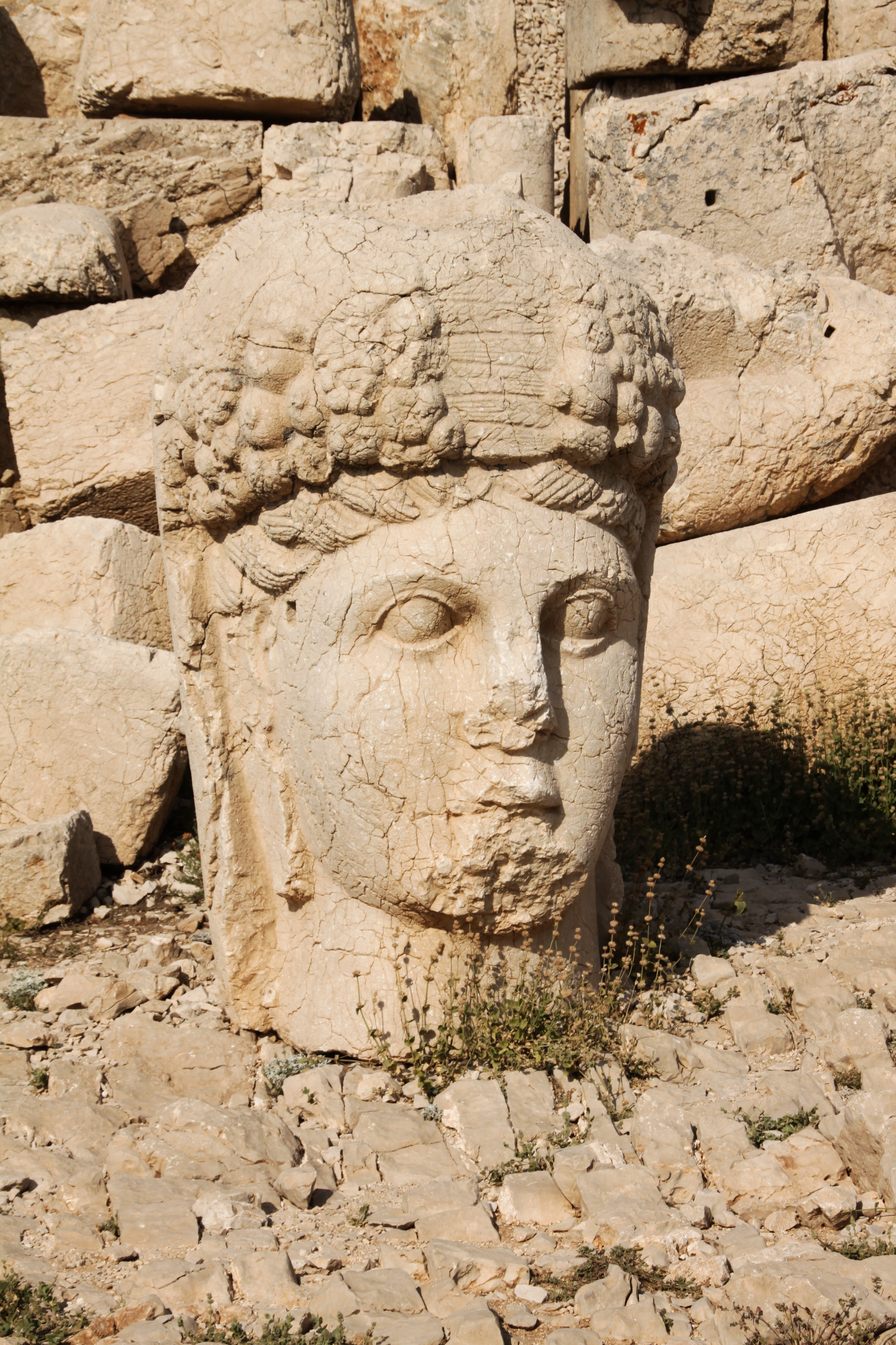 Mount Nemrut - West Terrace: Head of Goddess of Kommagene (Tyche, goddess of luck, fortune and prosperity) Nemrut Tümülüsü Gods of Commagene